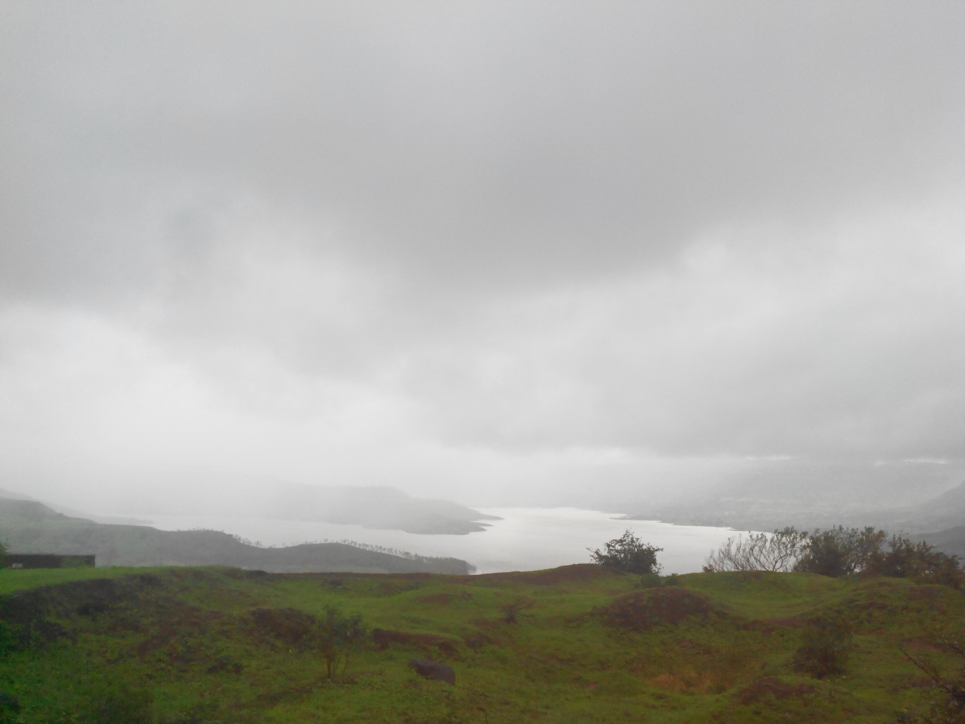 Near Kas , July 2014